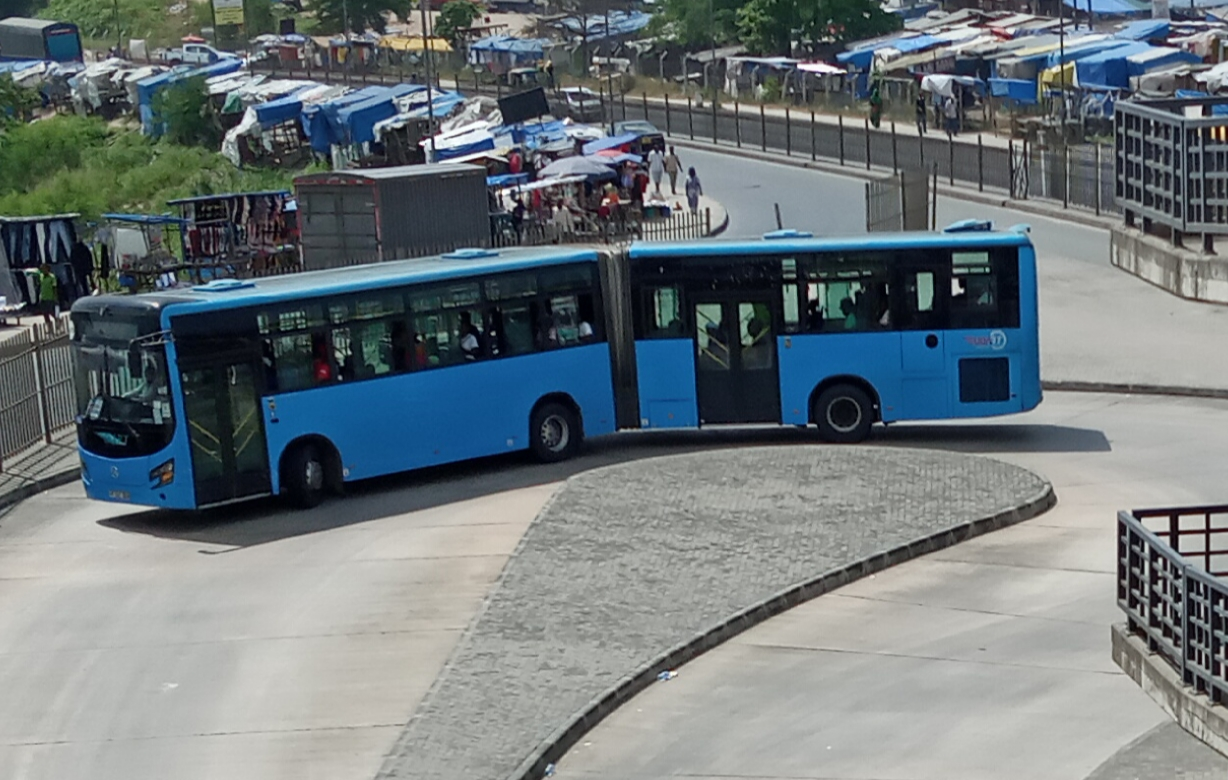 This is an image with the theme "Africa on the Move or Transport" from: Tanzania